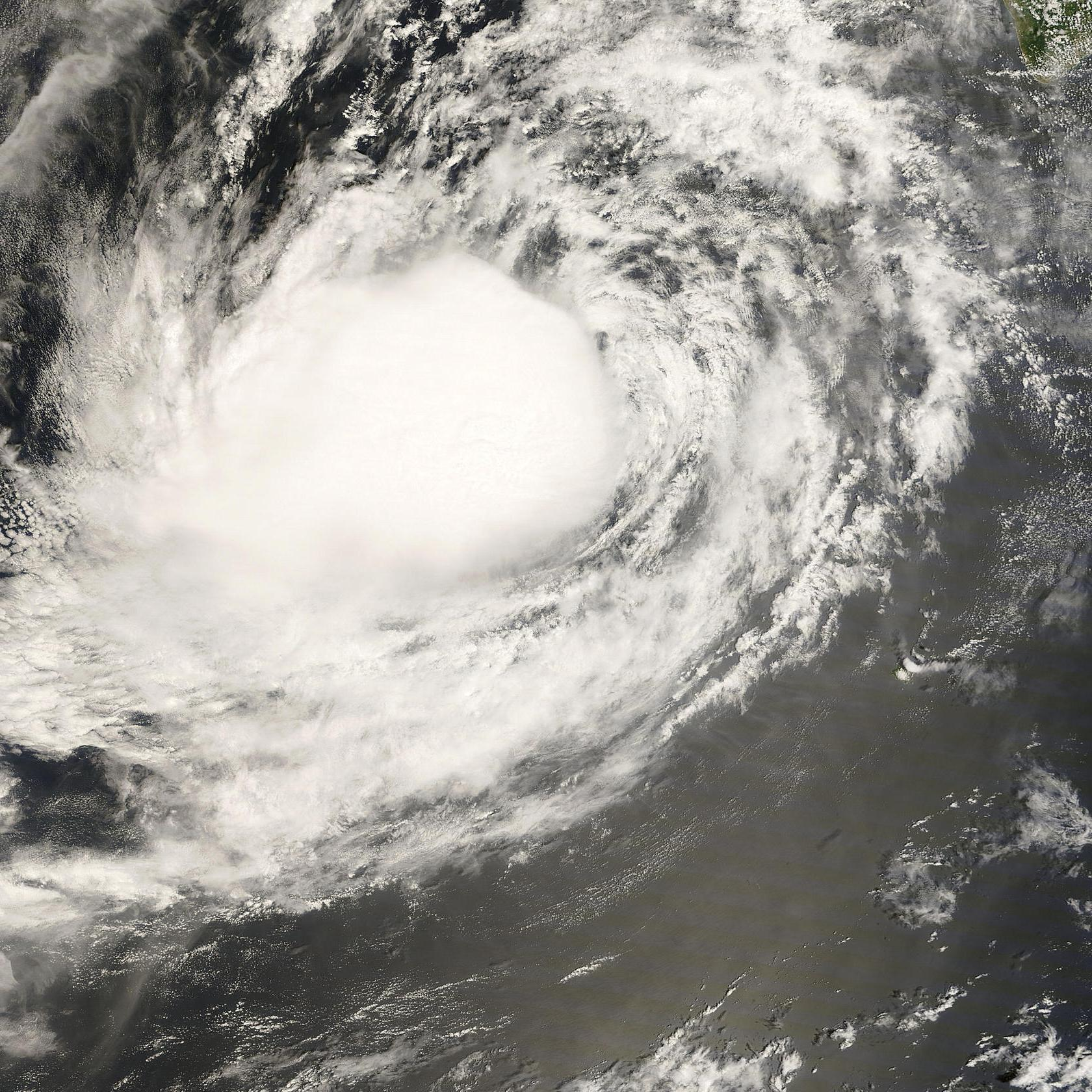 Tropical Storm Lowell (2008) on September 9, 2008.